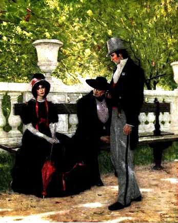 illustration to Les Miserables